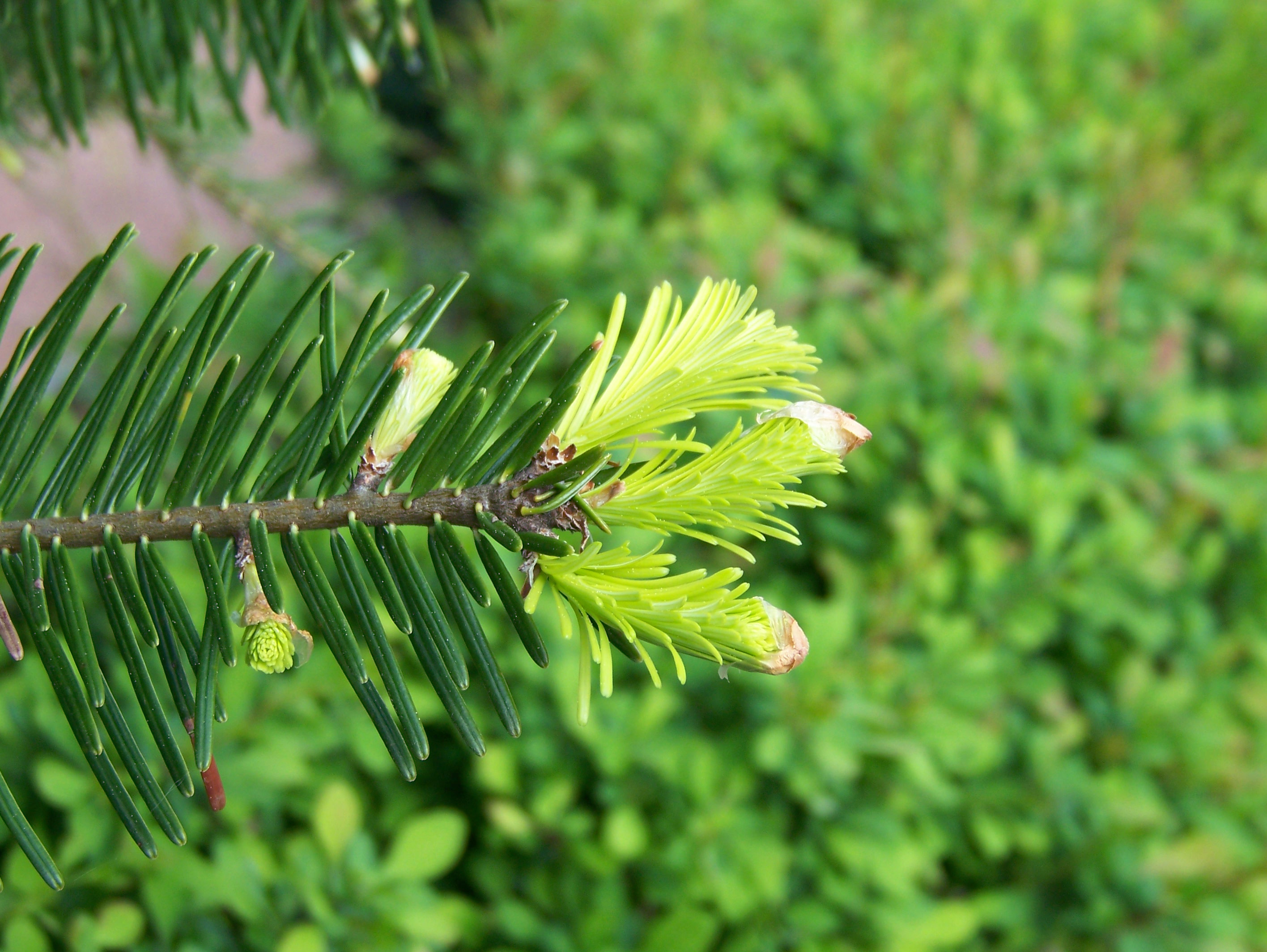 European silver fir (Abies alba), young spring shoots. Habitat: Chemnitz-Rabenstein, Saxony, Germany.